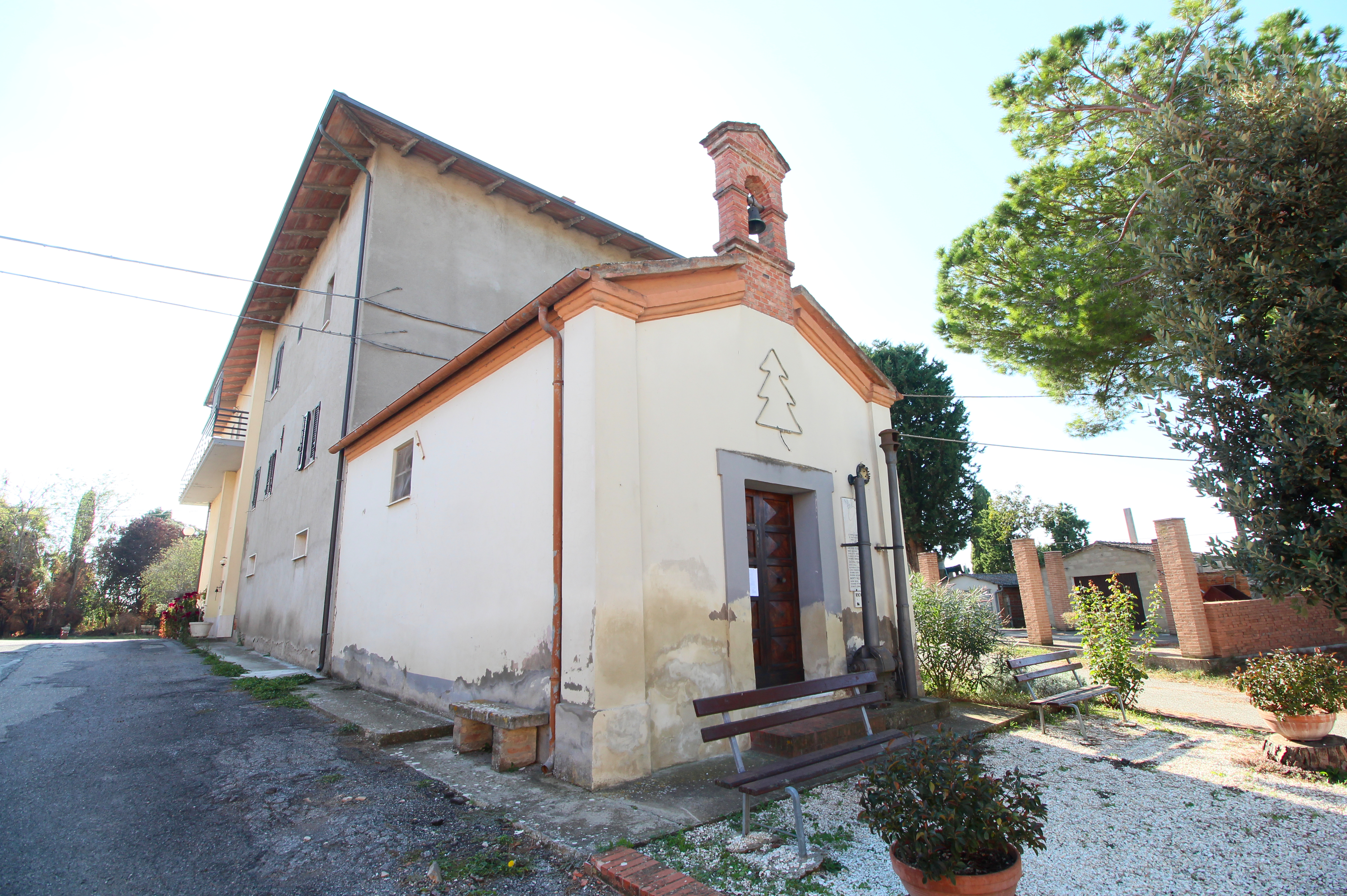 Church San Paolo, Frattavecchia, hamlet of Castiglione del Lago, Umbria, Italy